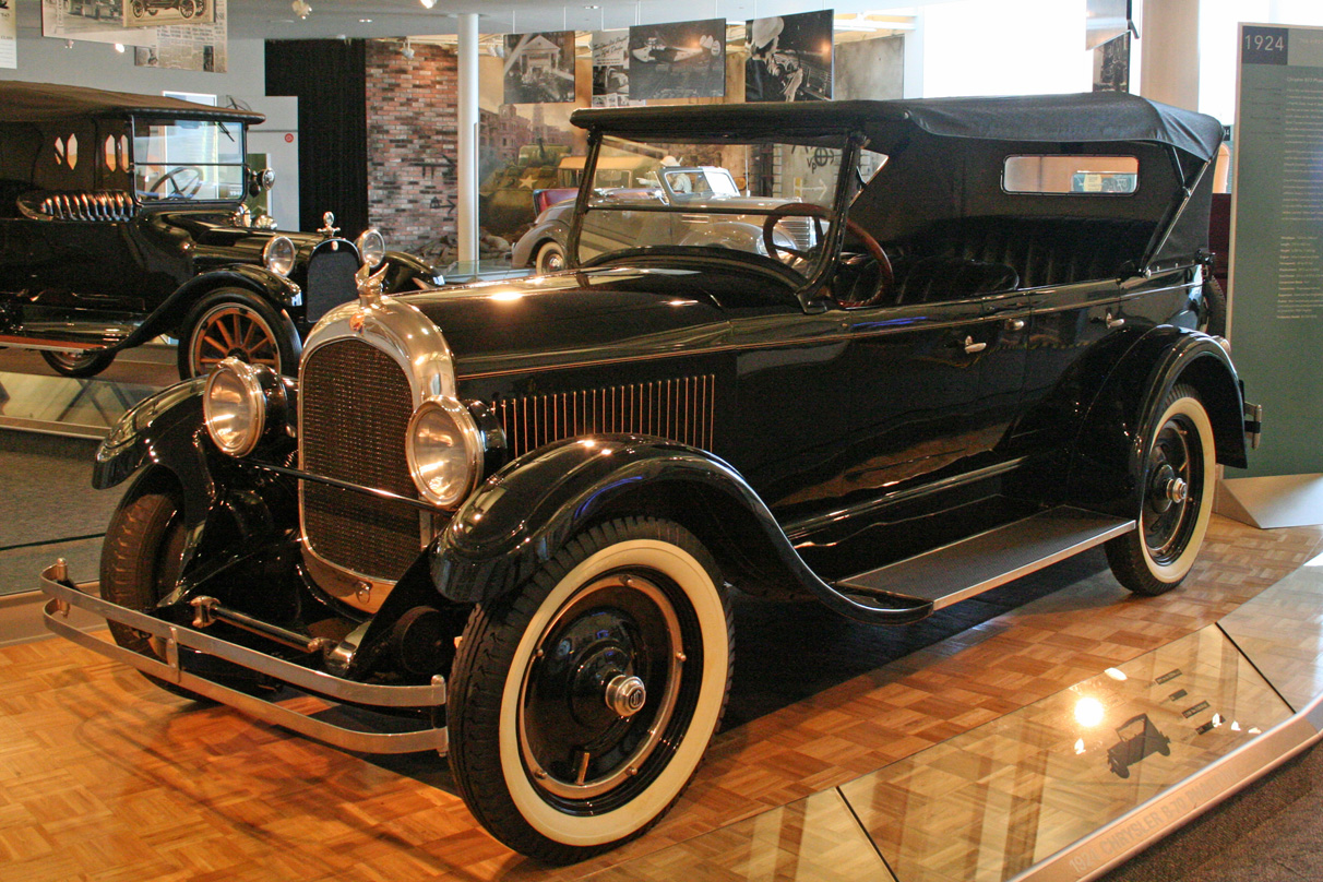 This car, designed by the famed engineers Zeder, Skelton and Breer, was something new to the automobile market, a high-compression, high-speed six-cylinder L-head engine that developed 68hp. This prototype had two-wheel mechanical brakes. Production models had four-wheel hydraulic brakes.